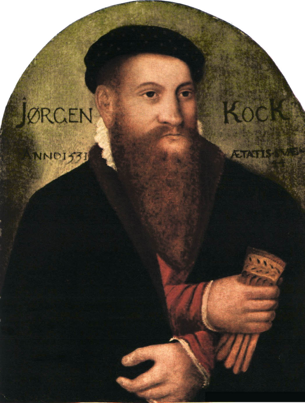 Jörgen Kock, who worked in Malmö, Denmark. Painting 1531, when he was 44 years old.